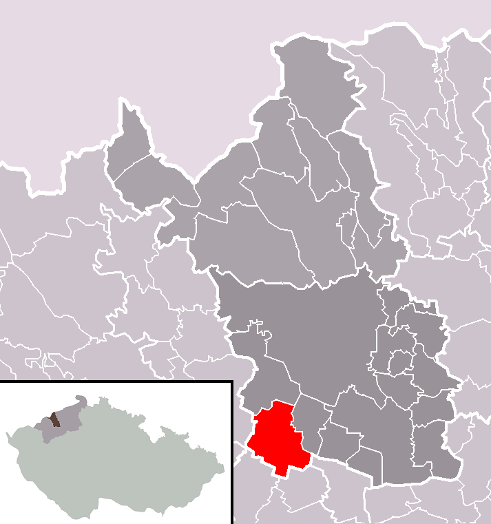 Location of Havraň municipality within Most District and administrative area of Most as a Municipality with Extended Competence.